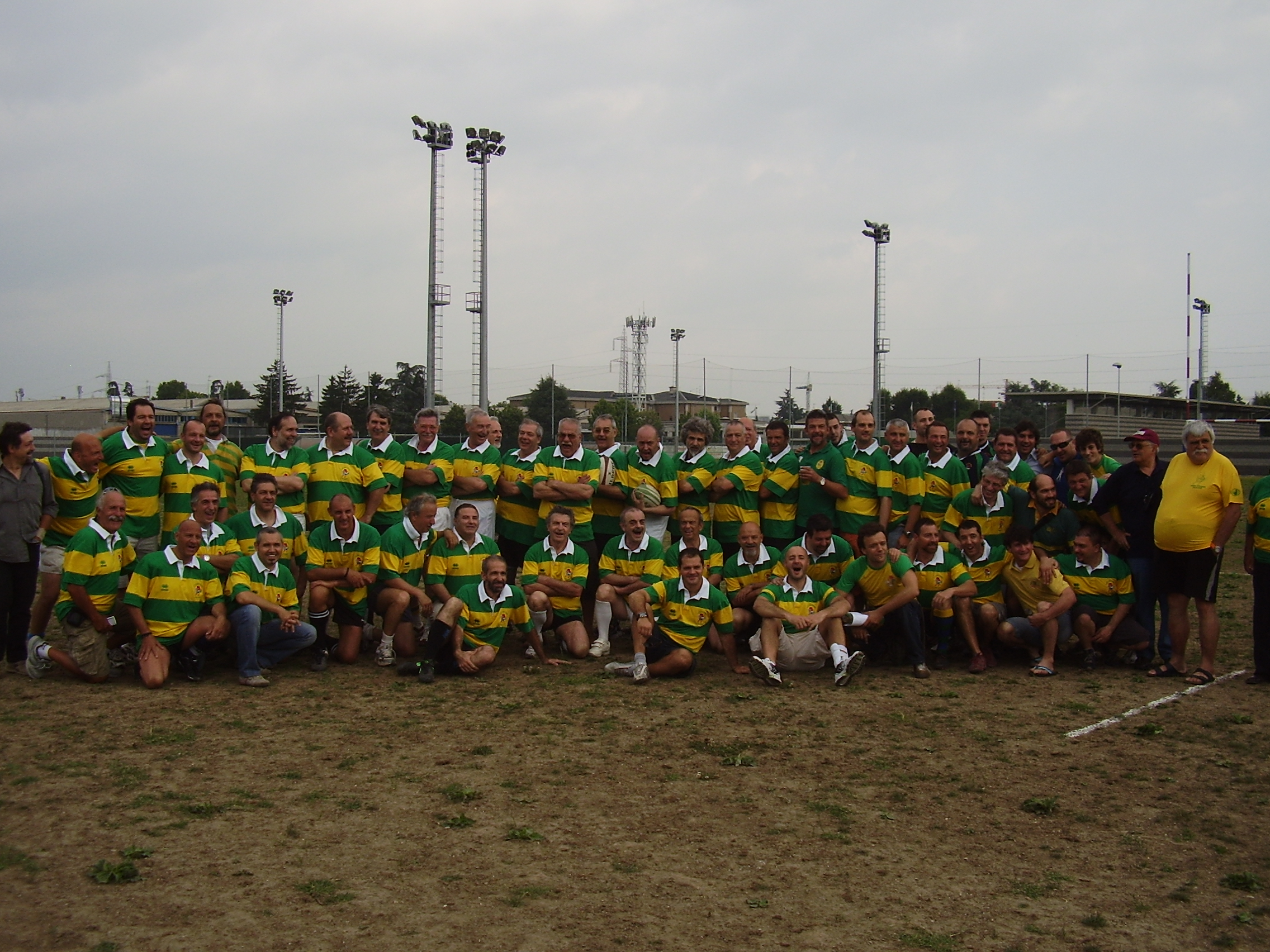 "El dì del Ghezz" 2009 - Rozzano 6-6-2009. Memorial Cesare Ghezzi: players of Chicken Rugby Club born in the Forties and Fifties.